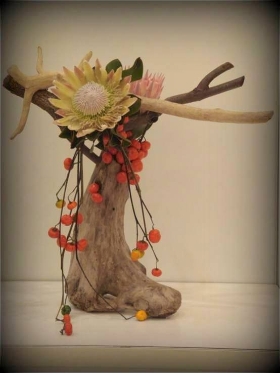 10. Gendaika creation in 2008 by Dolly Tu from Taipei, Republic of China using a combination of driftwood with contrasting colors and shapes holding two King Protea and strands of Chinaberry.